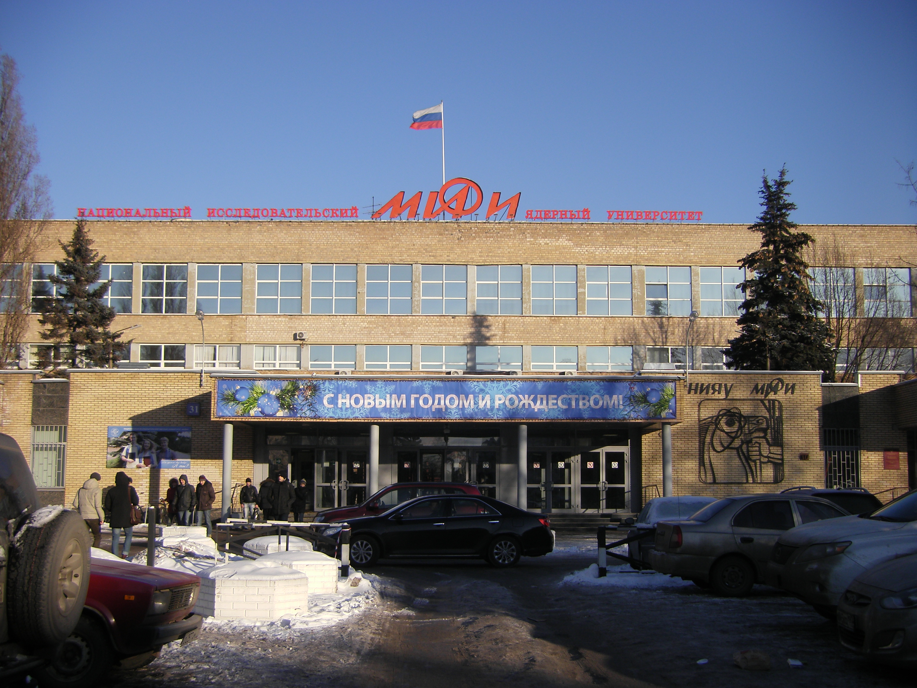 National Research Nuclear University “MEPhI”, view of the entrance and the main building, 2012-12-12